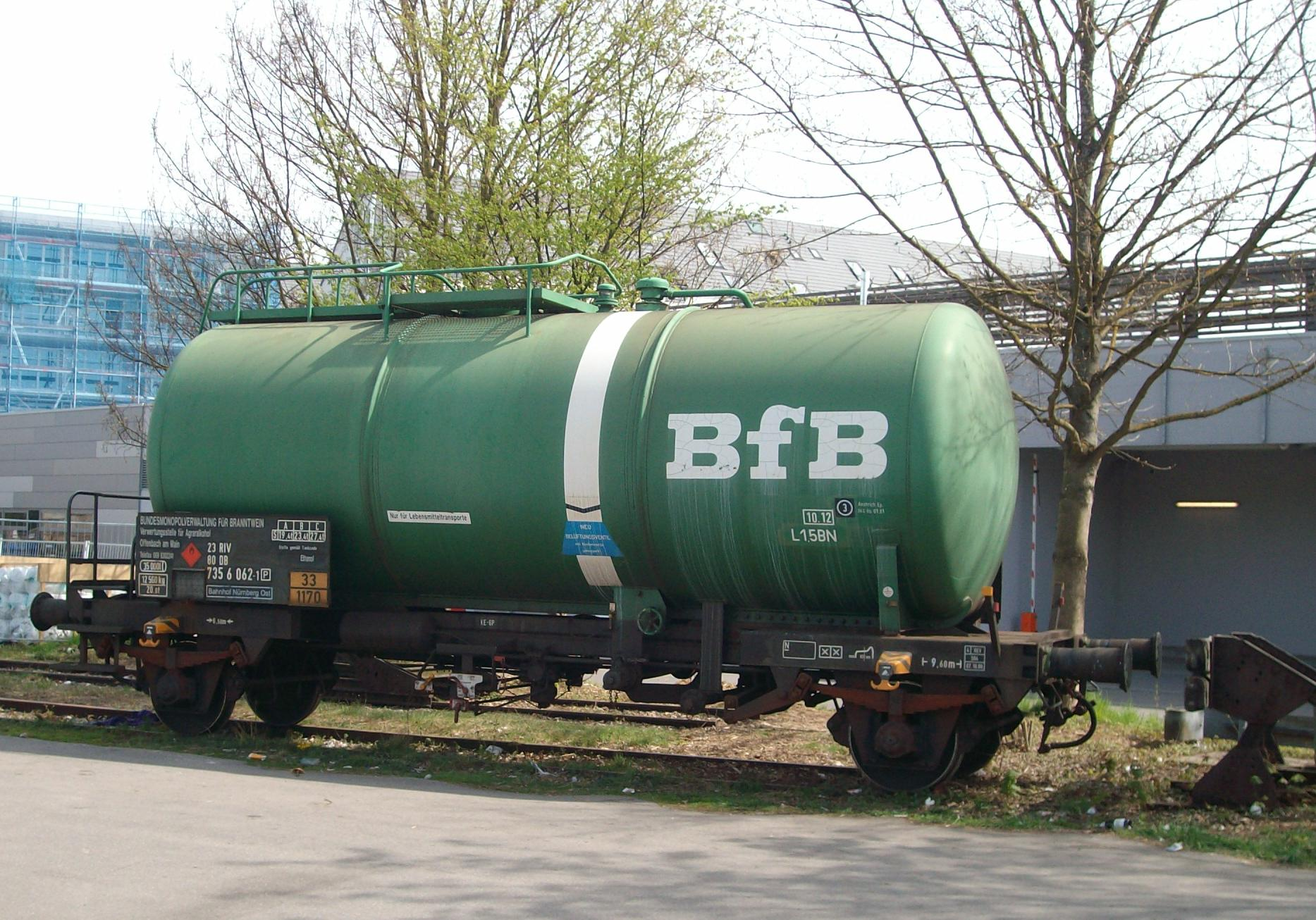 Tank railway wagon of Bundesmonopolverwaltung für Branntwein (German federal monopoly administration for brandy)